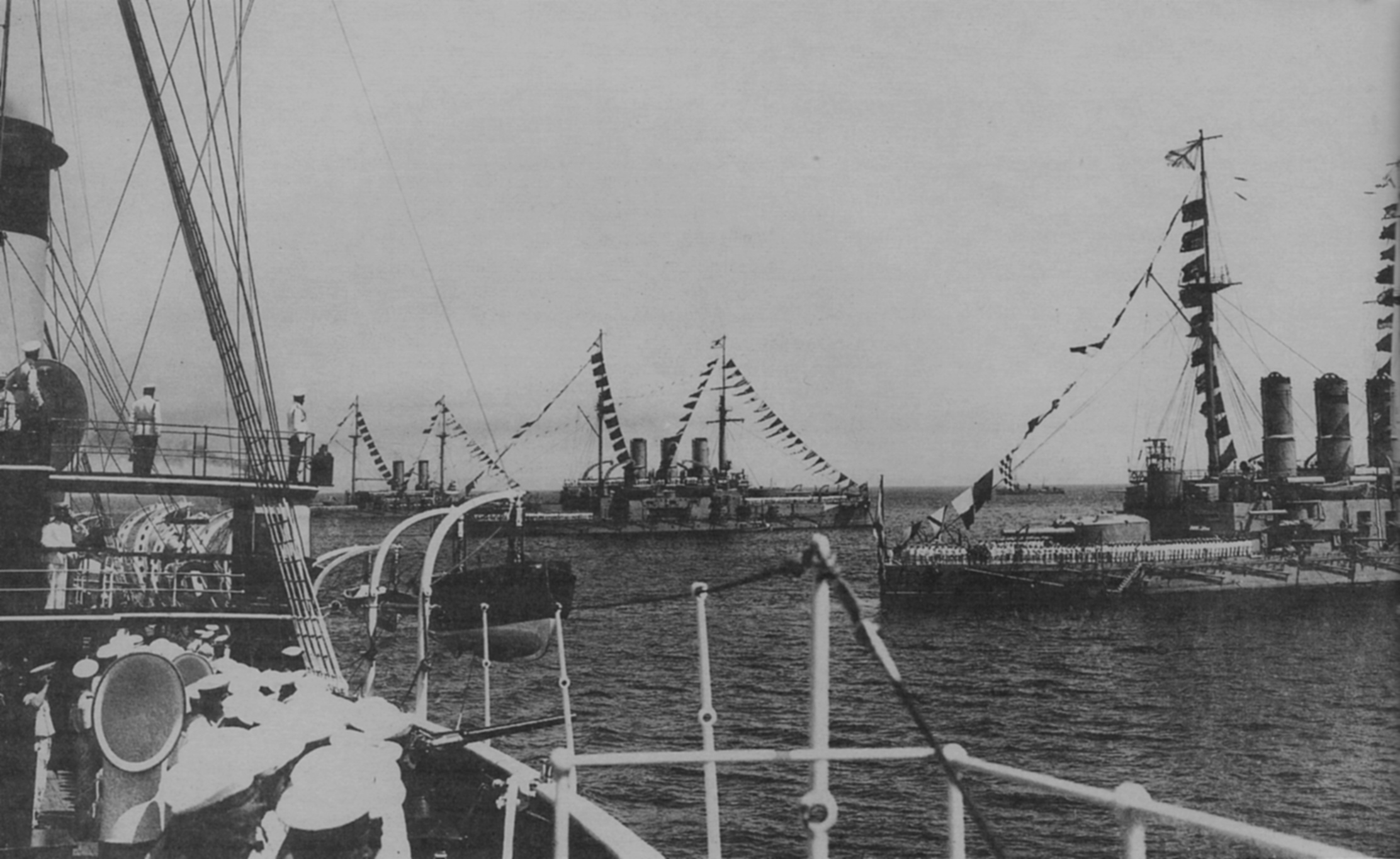 Imperial Russian battleships.